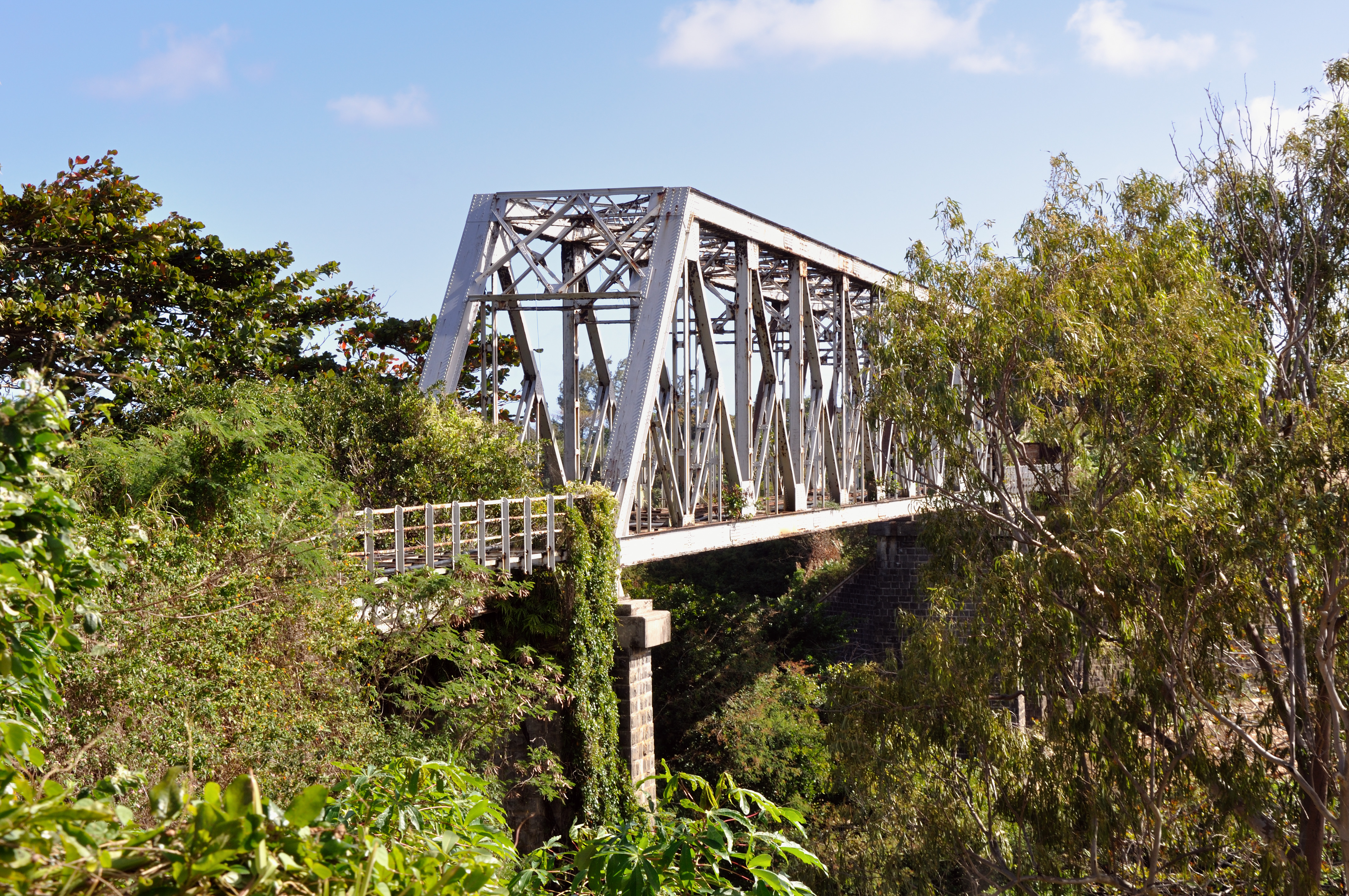 Mauritius, Old railroad bridge near L'Escalier. The railroad was originally used to transport sugar cane.